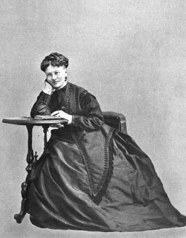 Photographic portrait of Jane Cunningham Croly, age 40, about the time that she founded the Sorosis club. Morse, Caroline M. Memories of Jane Cunningham Croly -- "Jenny June". New York: G. P. Putnam's Sons, 1904: p. 16